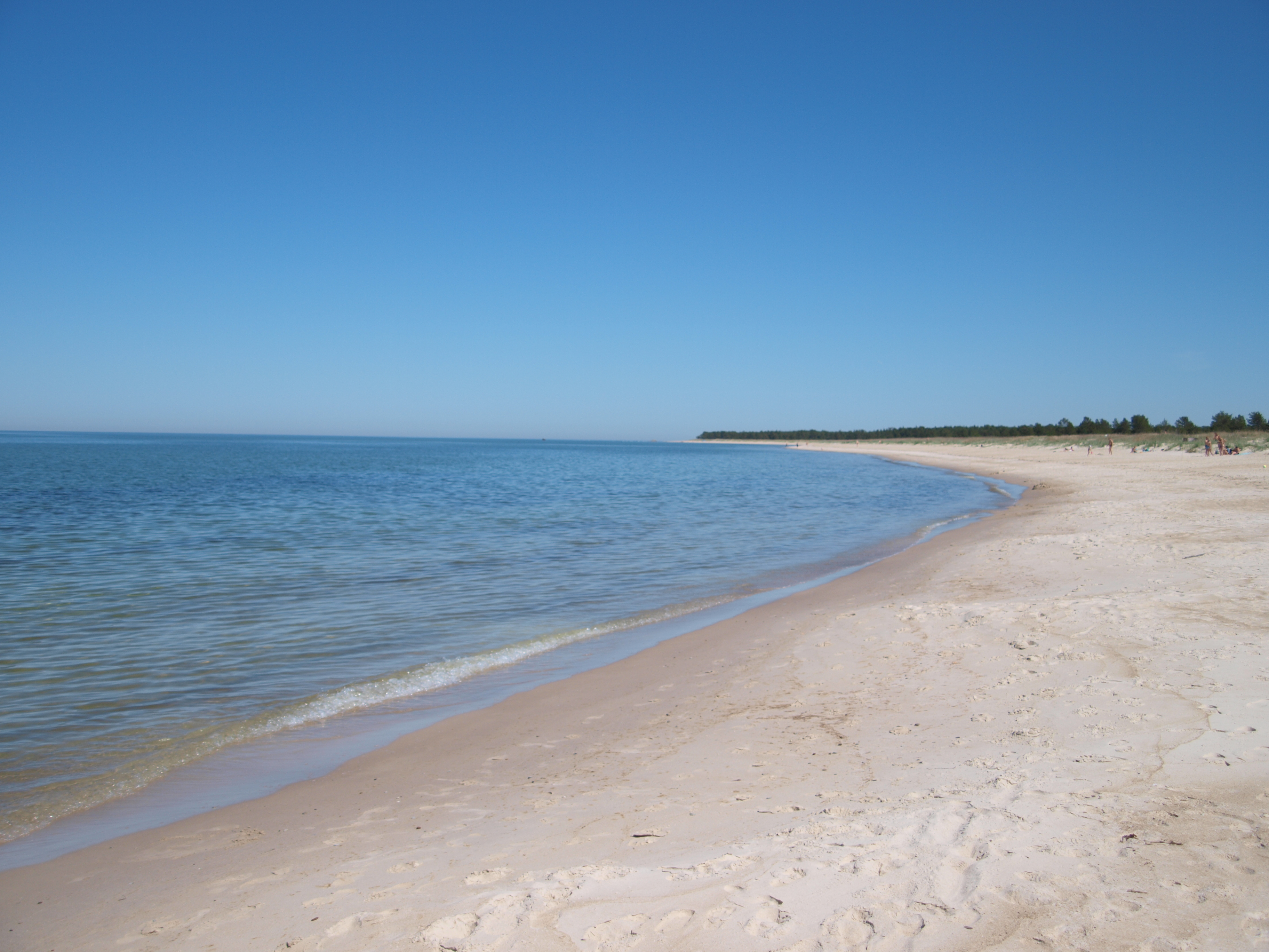 Picture of Peraküla beach in northwestern Estonia